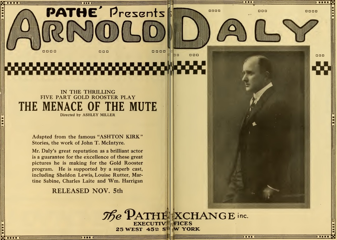 Description: Advertisement for the American silent film, The Menace of the Mute, in the Moving Picture World, November 6, 1915. Original author: Pathe Films Publication: Moving Picture World Date of Publication: November 6, 1915